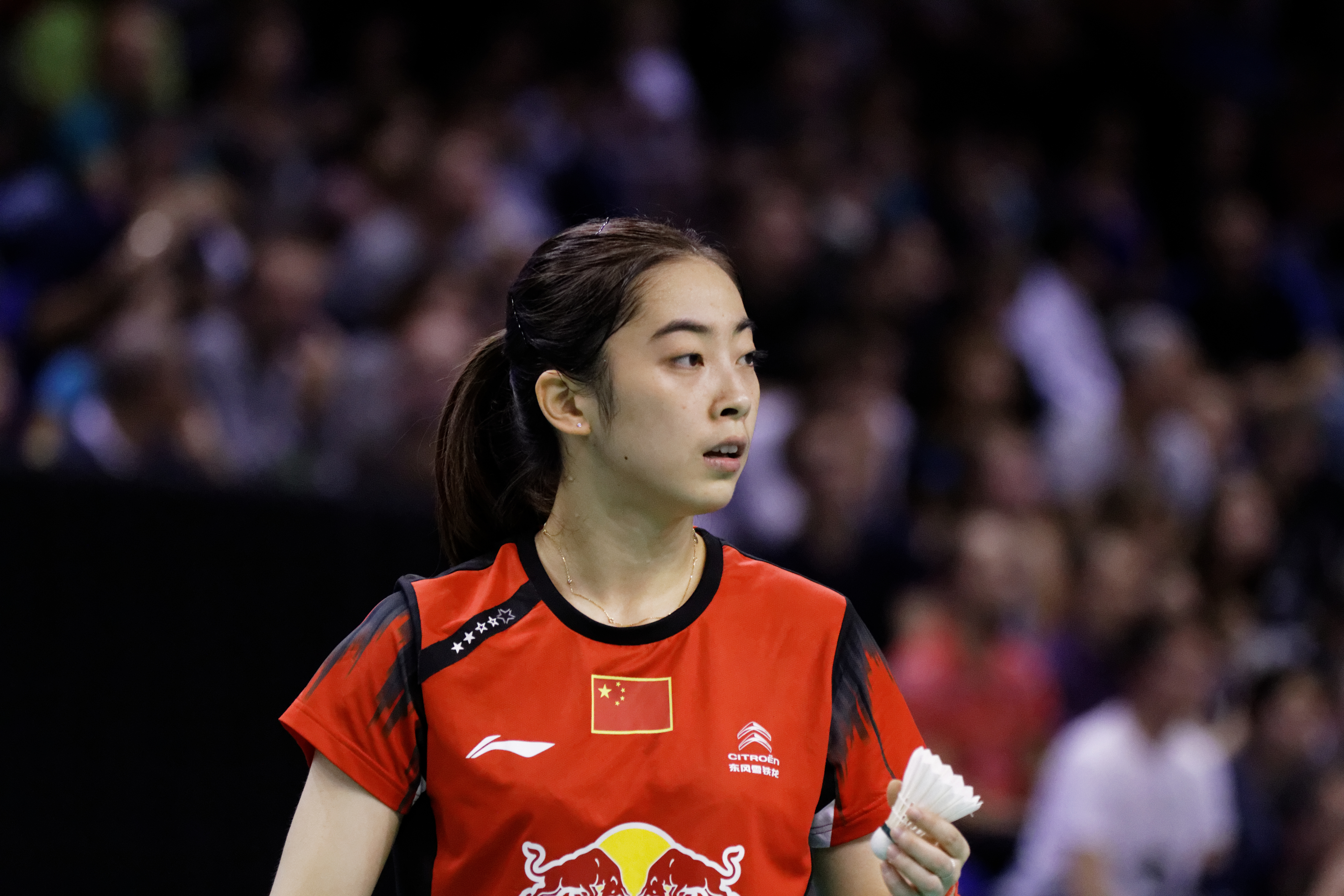 2013 French open. Women's singles quarterfinal. Wang Shixian vs Ratchanok Intanon.